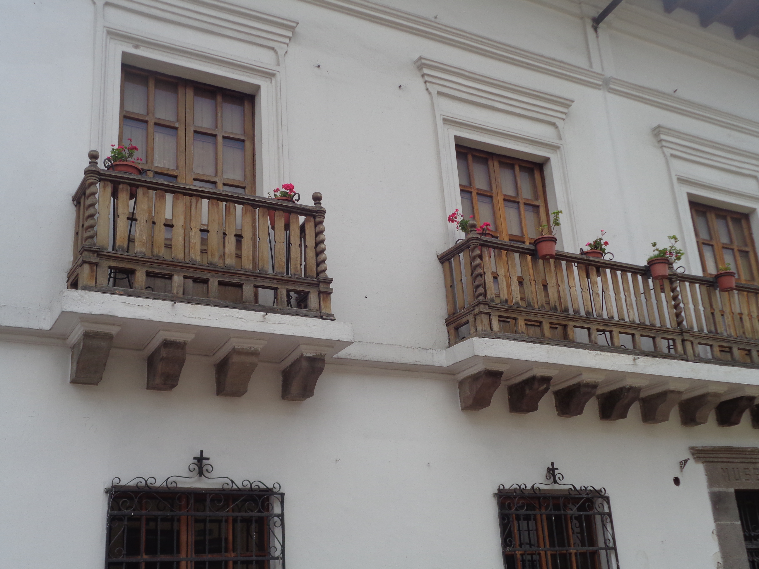 Calle Cuenca, Quito Historic Center of Quito, Ecuador. Quito Colonial Center UNESCO World Heritage Site Centro Histórico de Quito Photography by David Adam Kess